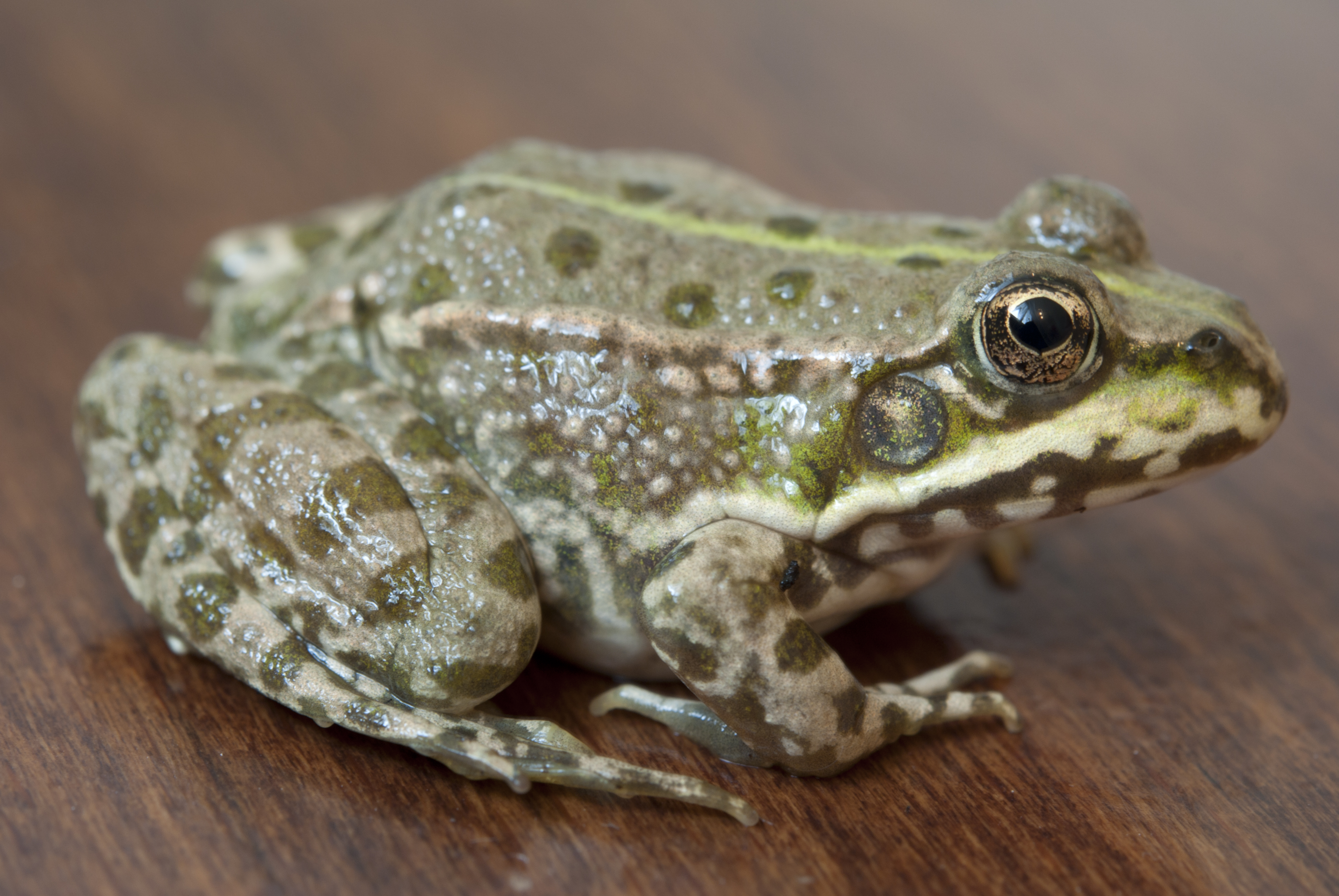 Pelophylax ridibundus (dorsal).